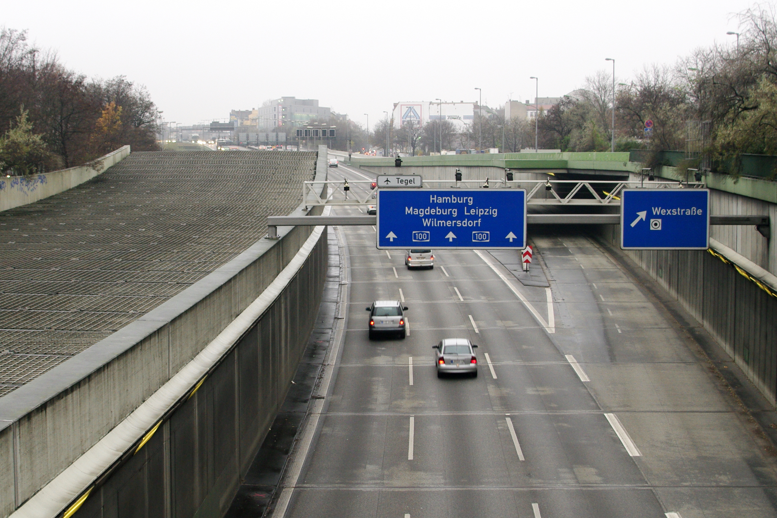 Western entrance to the Autobahn tunnel below the square "Innsbrucker Platz"